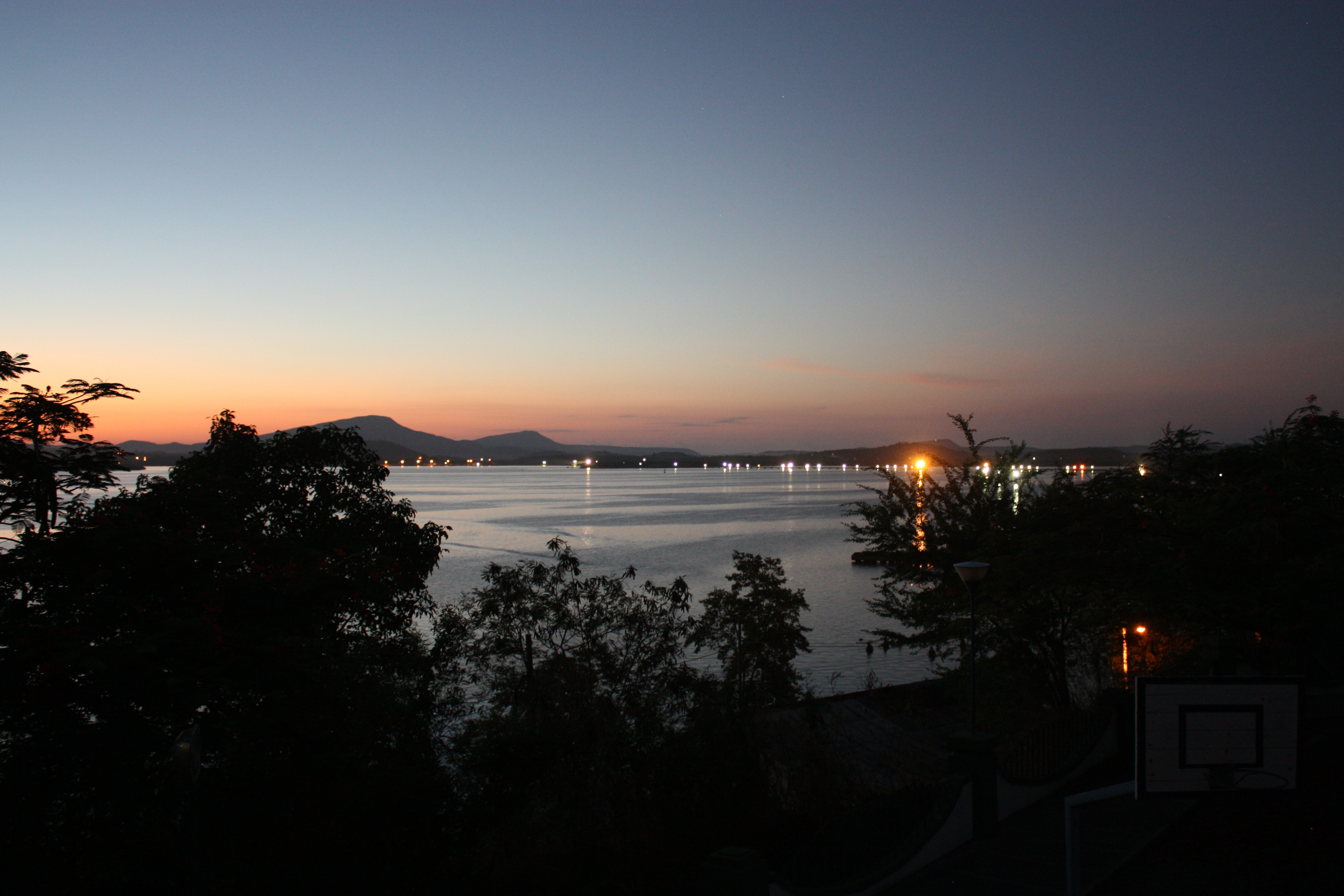 CC BY-SA 2.0